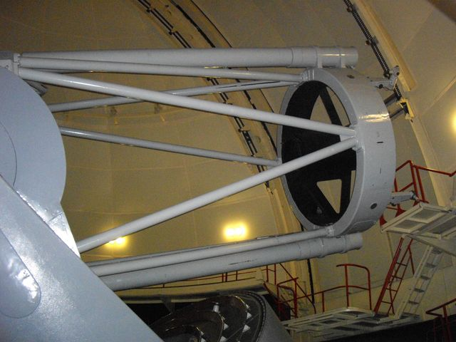 CraO main telescope 2.64m